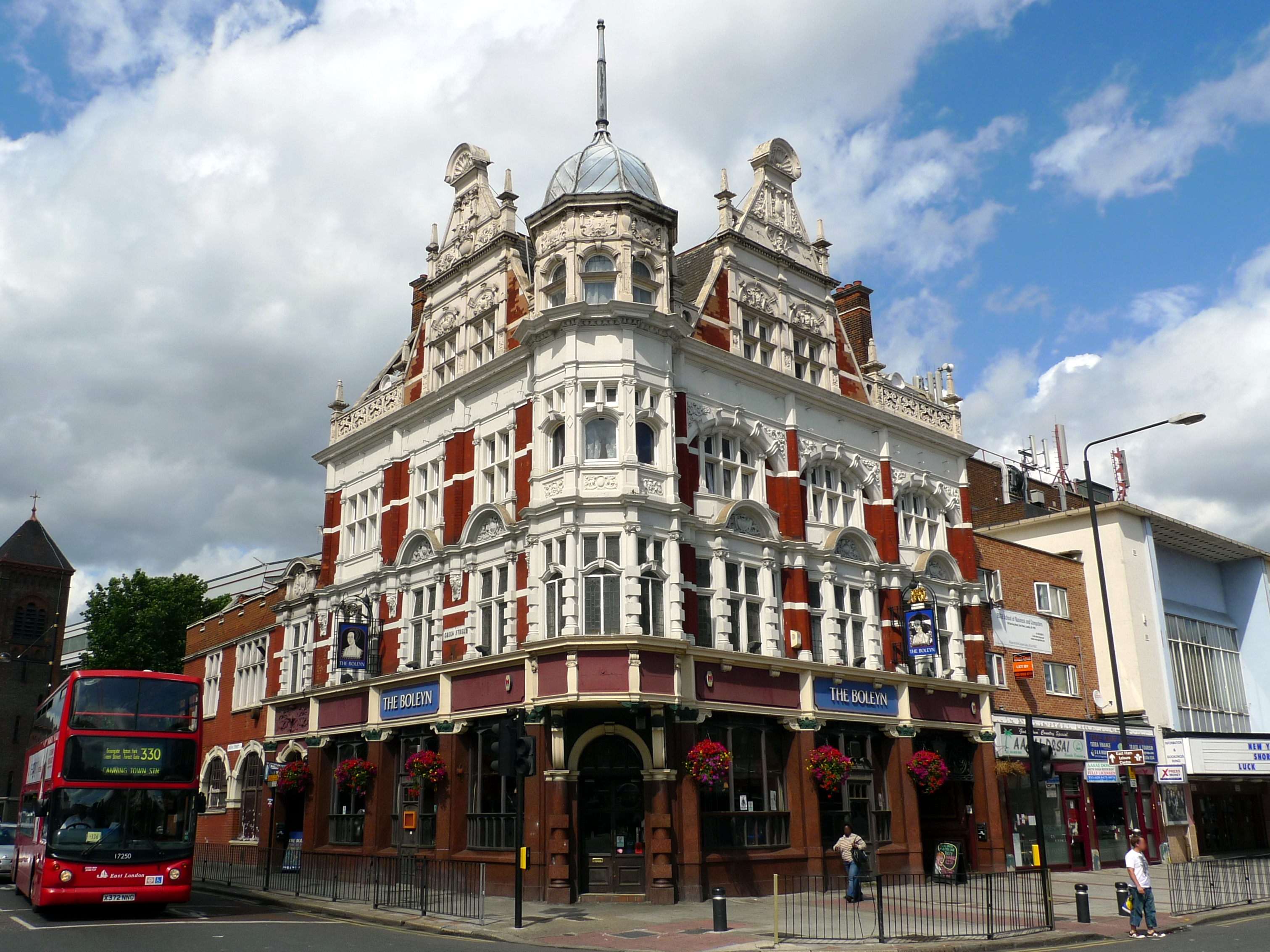 A grand pub building near the Boleyn Ground (football ground for West Ham United - behind) on the corner of Green Street and Barking Road. 1, Barking Rd, London Borough of Newham, E6 1PW Former Name: The Boleyn Tavern.